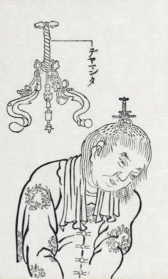 Instrument for cranial trepanation in Irako Kōgen: Geka Kinmō zui. 1767 (伊良子光顕: 外科訓蒙図彙. 明和4年刊) (private collection)